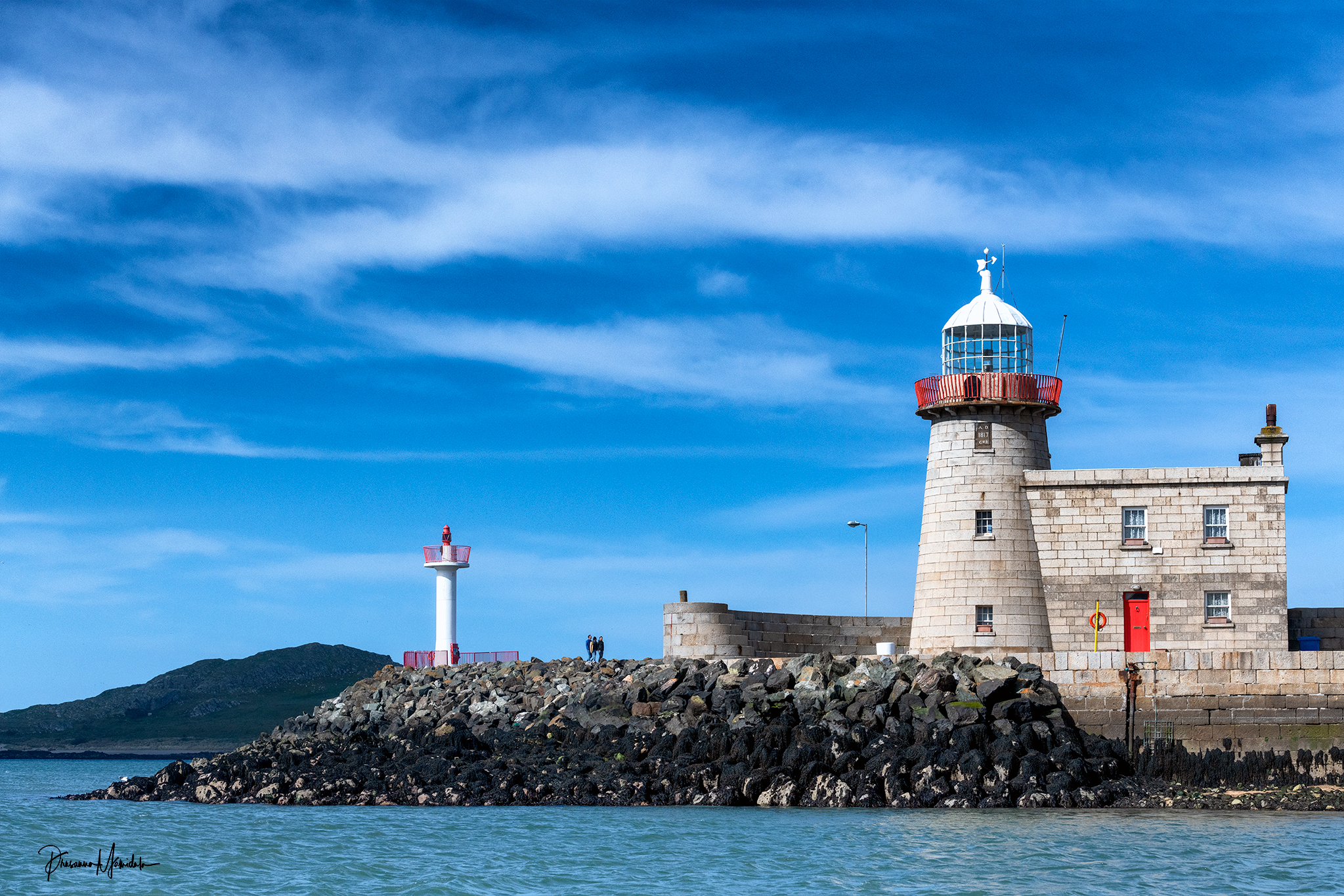 Baily Lighthouse, Howth Harbour, Photographer: Prasanna Kumar Mamidala